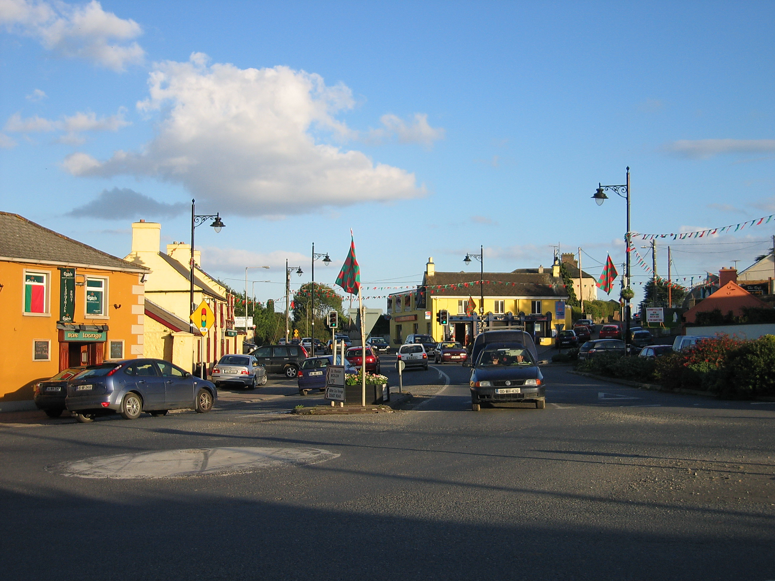 Rathnew Village on the northern outskirts of Wicklow Town.